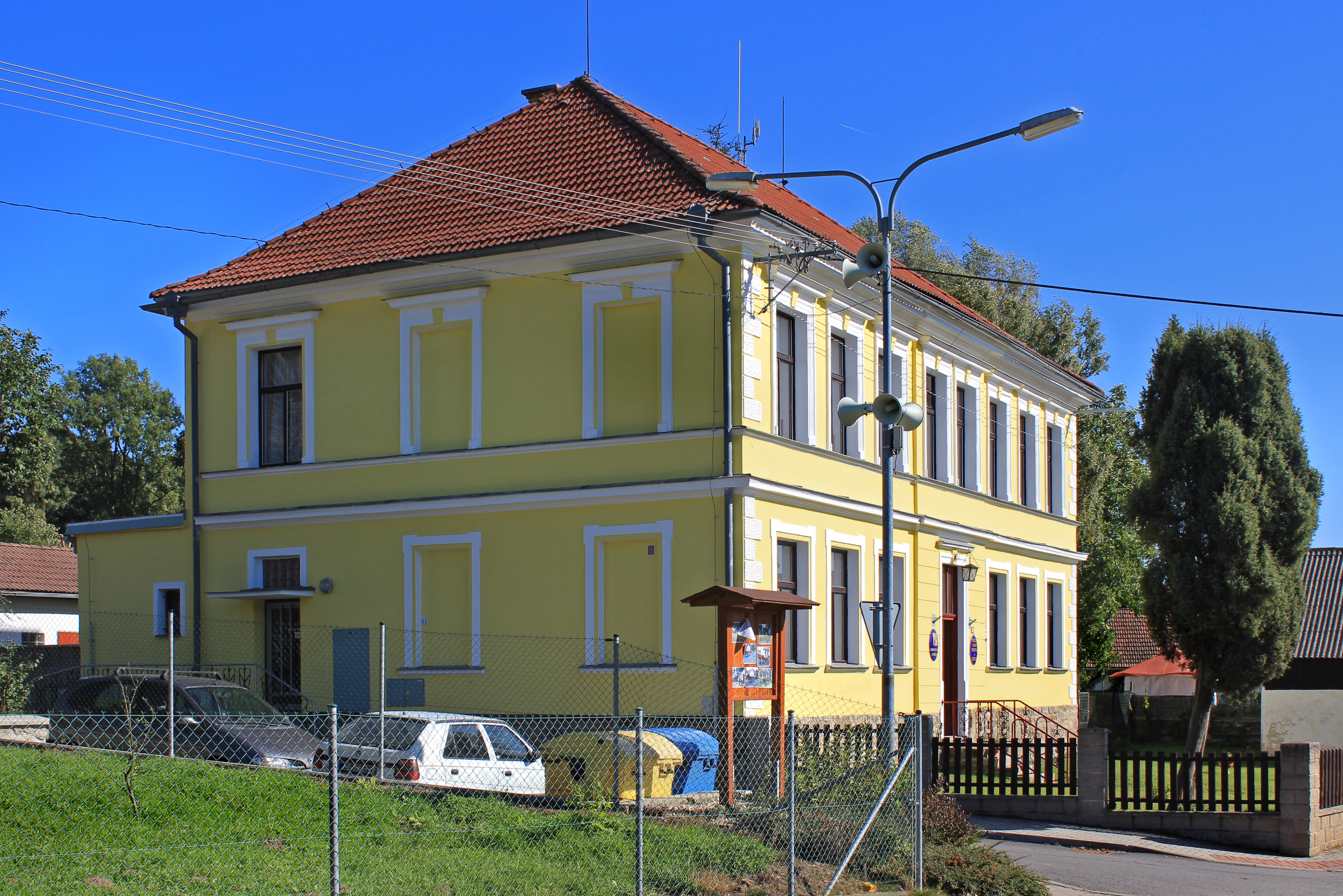 Municipal office in Střítež, Czech Republic.